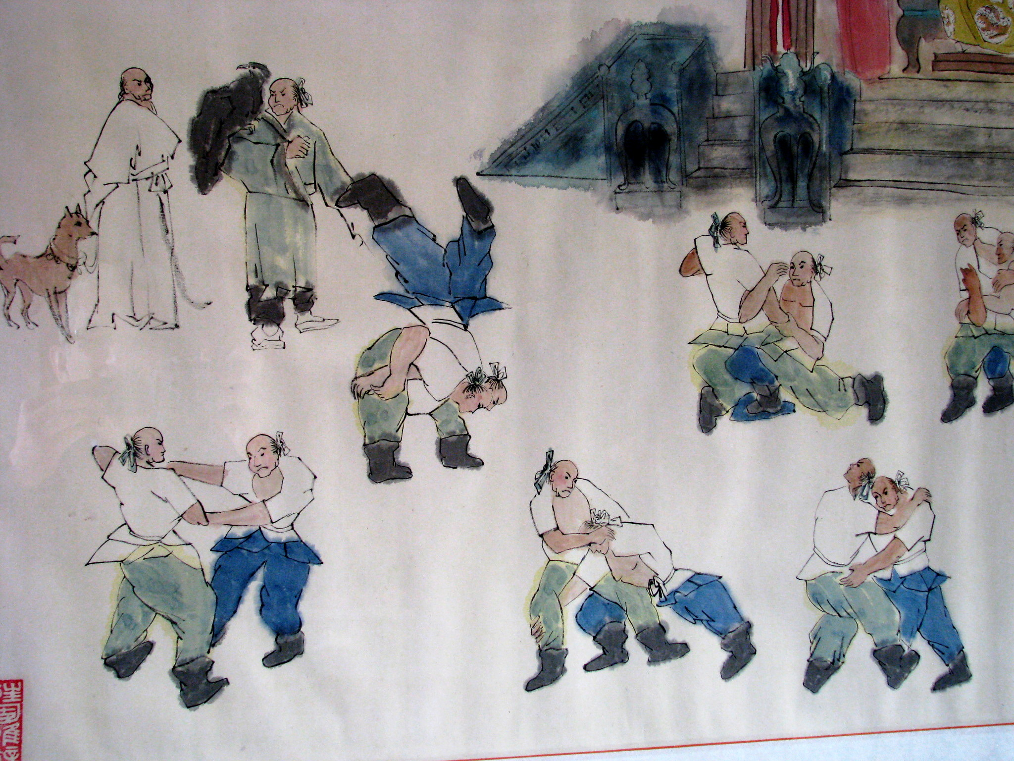 中国式摔跤 Shuaijiao, Chinese type wrestling. Wrestlers during a demonstration. Part of a large drawing.